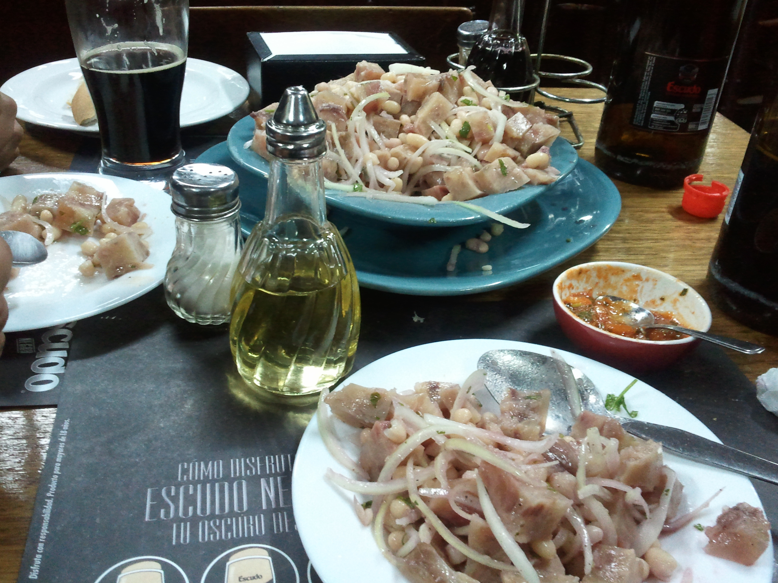 Comida Típica chilena. Mezcla de "Queso de cabeza", con porotos burros, cebolla y cilantro, aliñados con limón, sal y pimienta. La imagen corresponde al Restorán San Carlos (también llamado el Croata) de la calle Las Heras en Valparaíso.